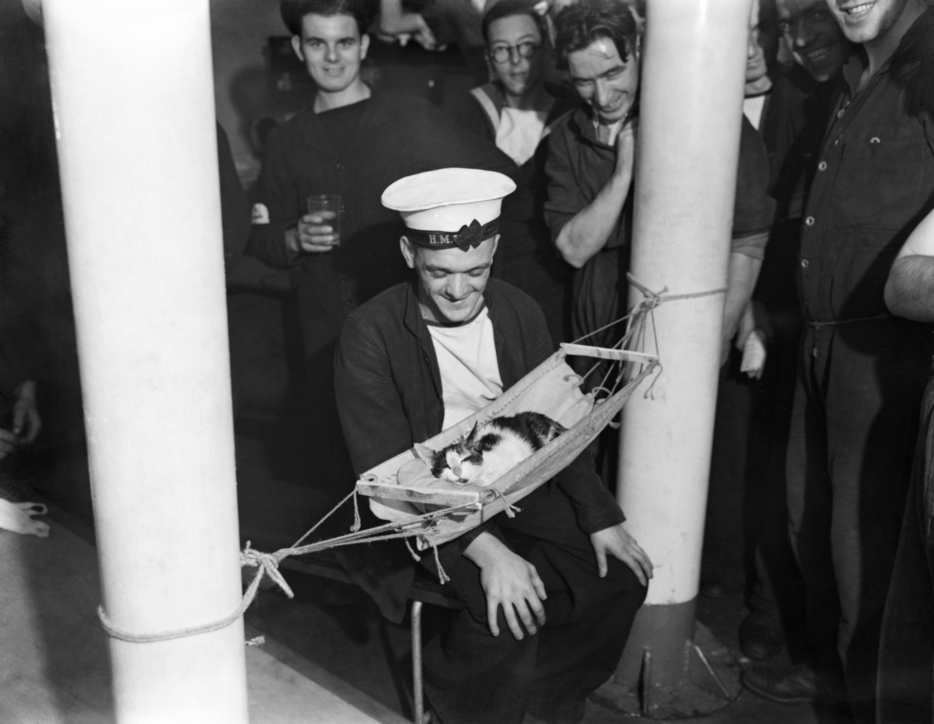 A group of sailors surround the ship's cat "Convoy", as he sleeps in a miniature hammock on board HMS HERMIONE. According to the original caption, "Convoy" is in the ship's book and provided with full kit. The cat obtained his name because of the number of times he accompanied the ship on duty patrols.